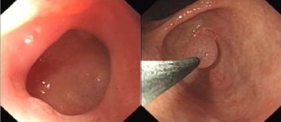 Pyloric stricture (through which the scope could not be passed) dilated with Boston Scientific balloon.